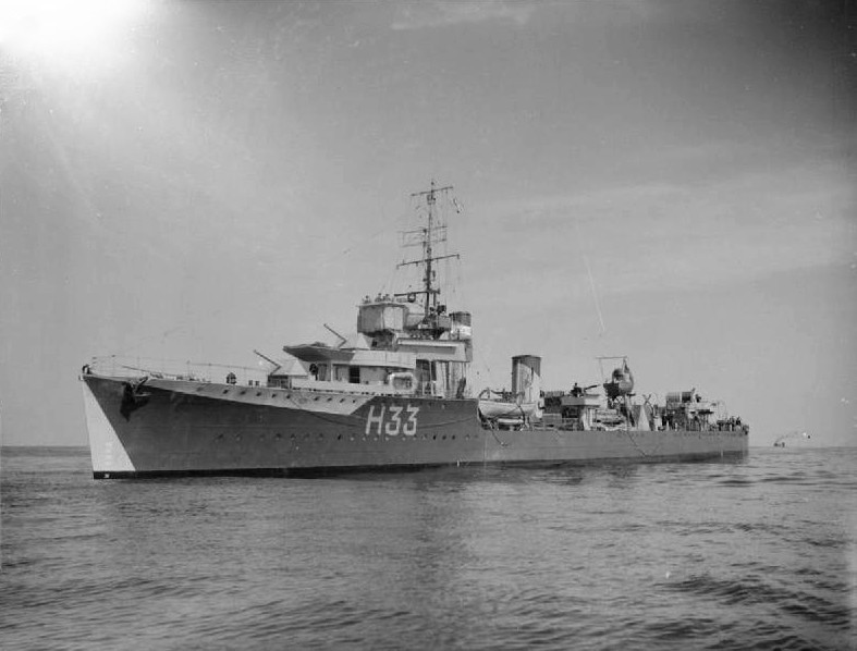 The Royal Navy during the Second World War HMS VANOC, a V Class destroyer, in her original configuration.